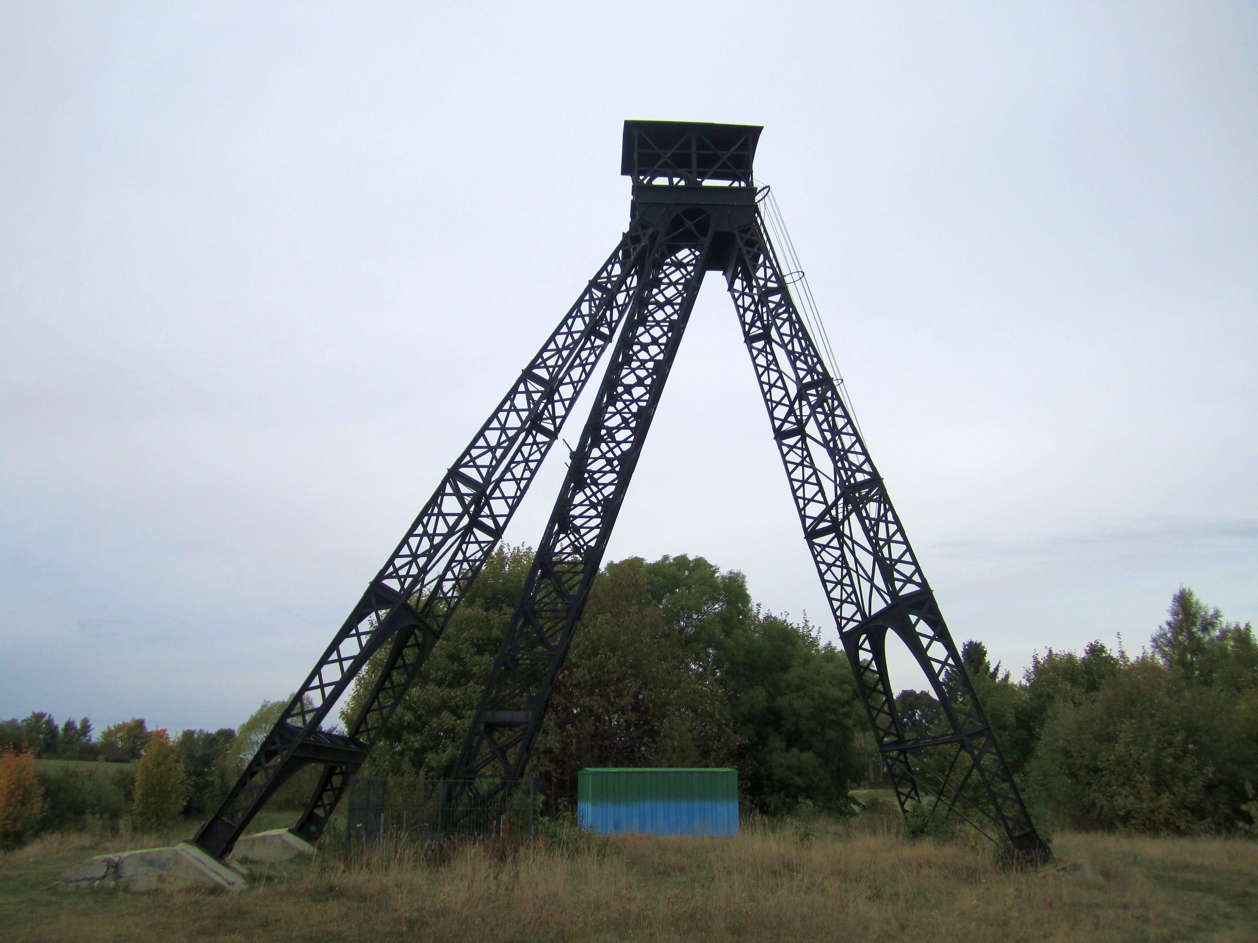 Headframe of Tuerkschacht. Zschorlau near Schneeberg, Ore Mountains, Saxony, Germany.